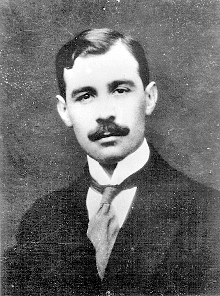 Canonized as a new martyr in 1992 at the Council of Bishops of the Russian Orthodox Church.